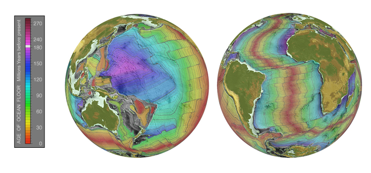 age of the ocean floor